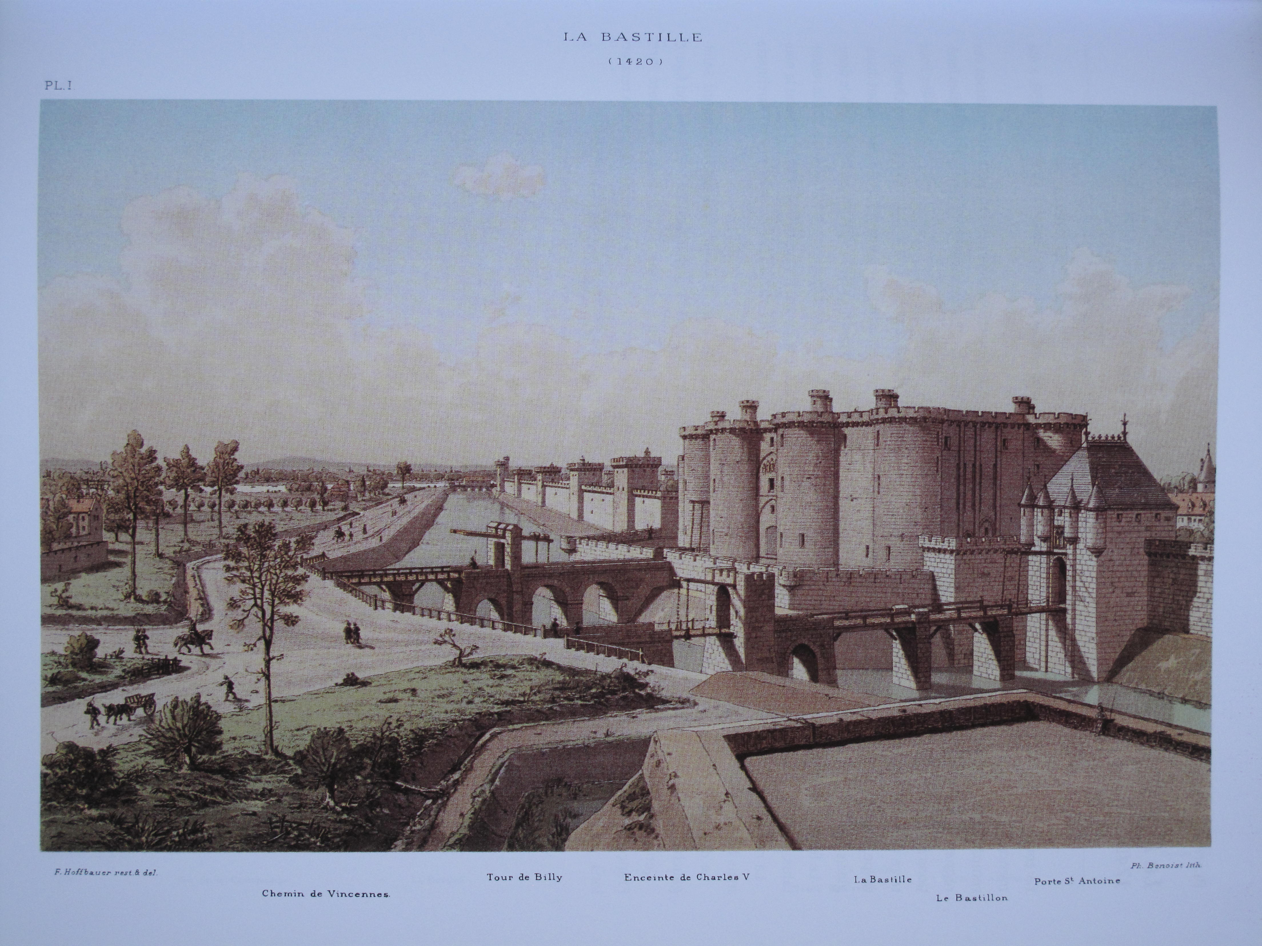 The fortress of la Bastille in 1420 (Paris, France).